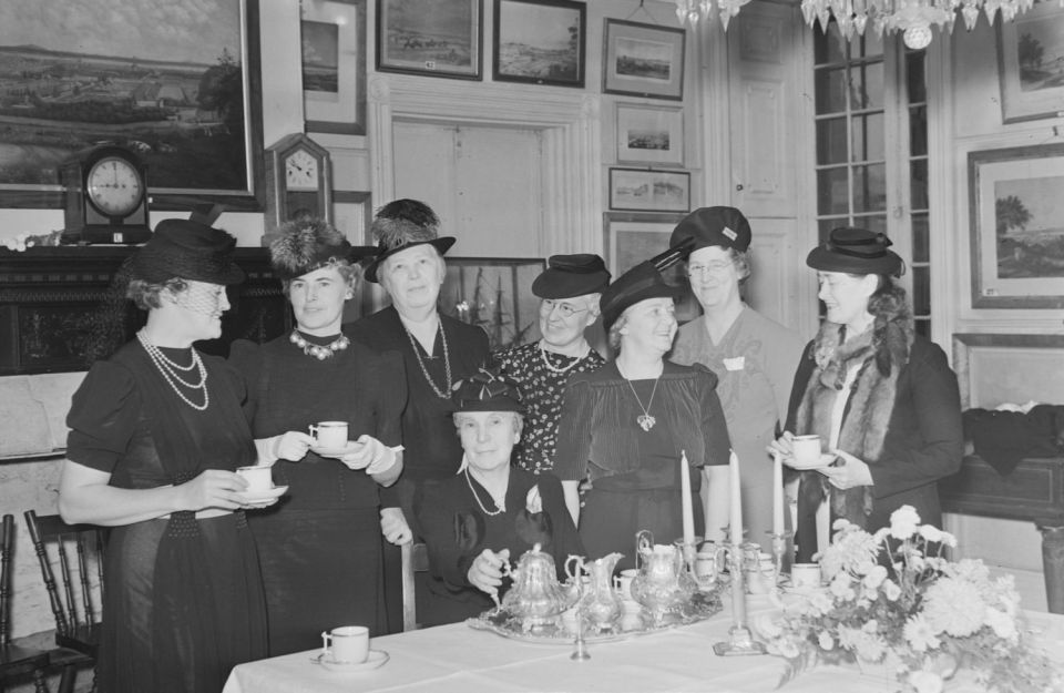 Women's "Catholic Women's Club" have tea at a table on which are silverware. In the background, we see several paintings on the wall and two antique clocks on the mantelpiece of the fireplace.